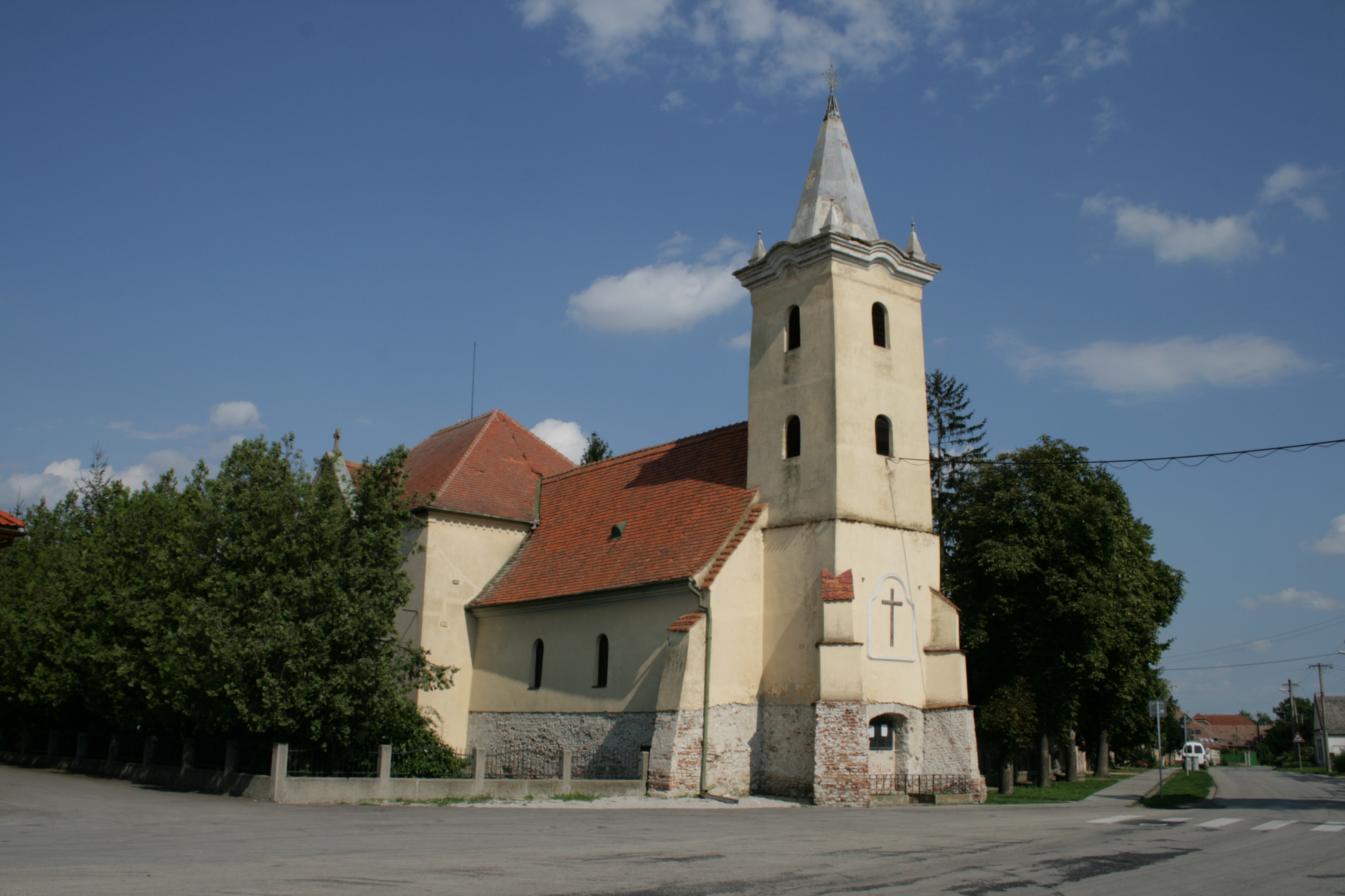 Church in Kostolná pri Dunaji (Senec district, Slovak Republic)